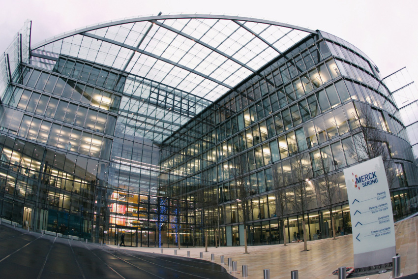 The headquarter of the Merck Serono division in Geneva, which was completed at the end of 2006, offers room for 1.200 employees in research, development and administration.